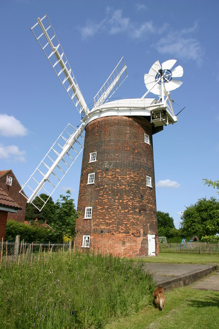 The restored windmill at Old Buckenham, Norfolk